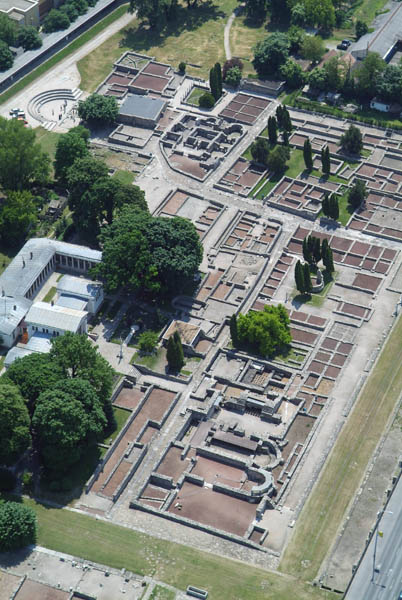 Aquincum, Hungary, Budapest, aerial photography